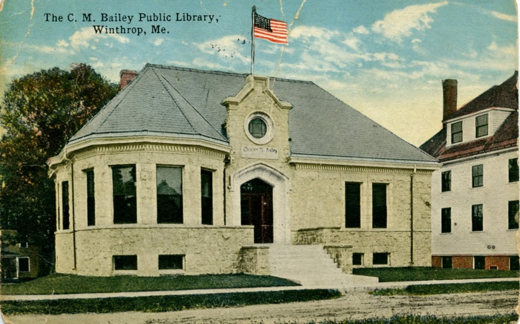 The old Bailey Public Library in downtown Winthrop, Maine, on the same site as the present Bailey Library (on the corner of Bowdoin and Summer streets). At right is the original Masonic Hall/Winthrop High School, which was removed in 2015 for renovations.